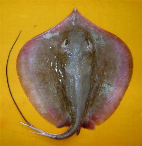 Himantura walga from Karachi, Pakistan